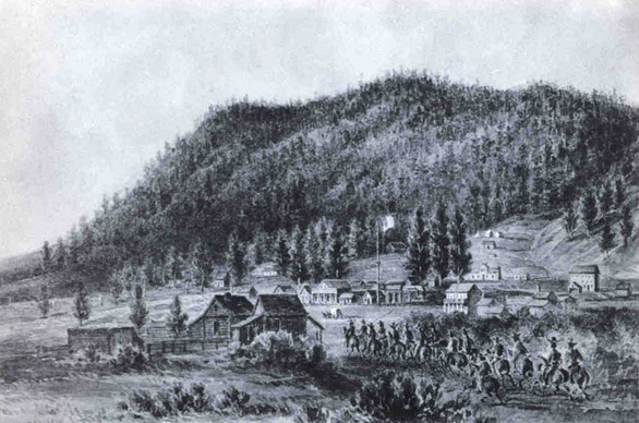 Captain James Hervey Simpson’s expedition arriving at Genoa, a Mormon settlement on the eastern slopes of the Sierra Nevada's near Lake Tahoe.